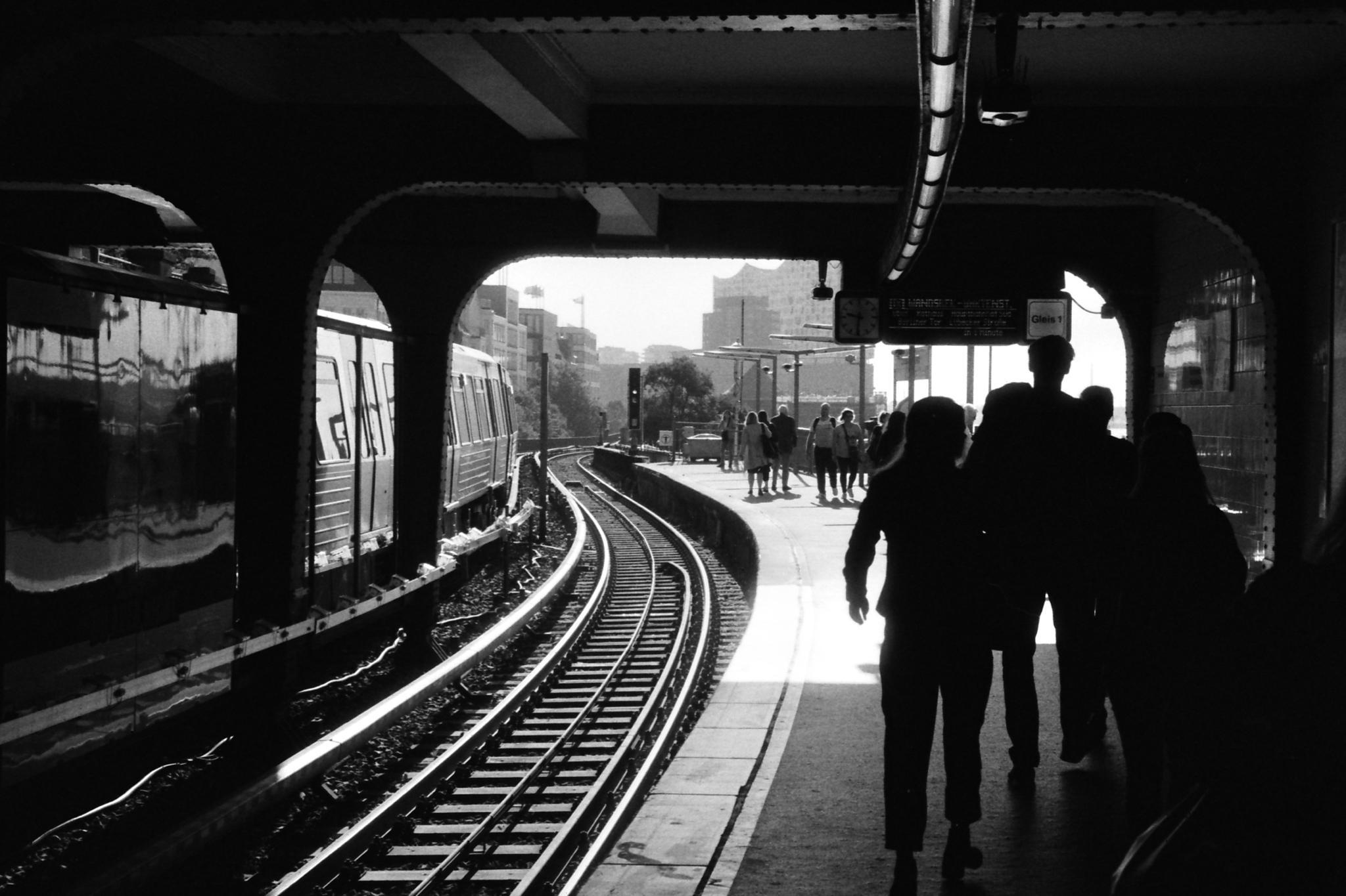 U-Bahn station Landungsbrücken (scan from negative, Fomapan 200, Leica IIIc, Summitar 5cm f/2).